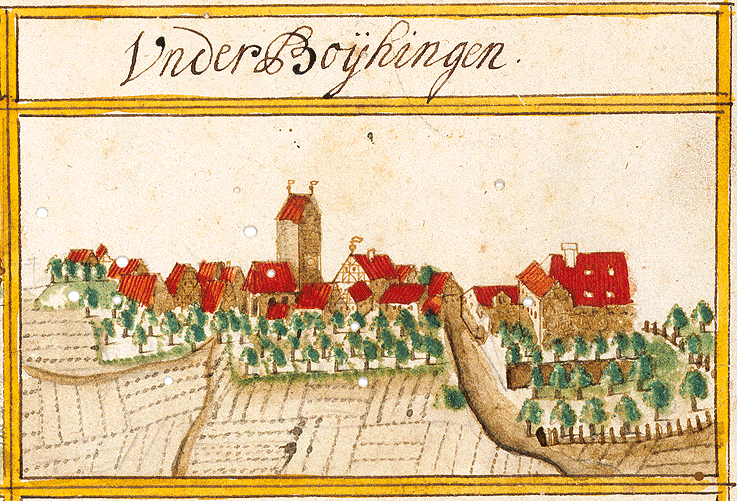 View of Unterboihingen, Wendlingen am Neckar, from the forest register books created by Andreas Kieser